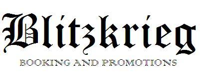 Company Logo